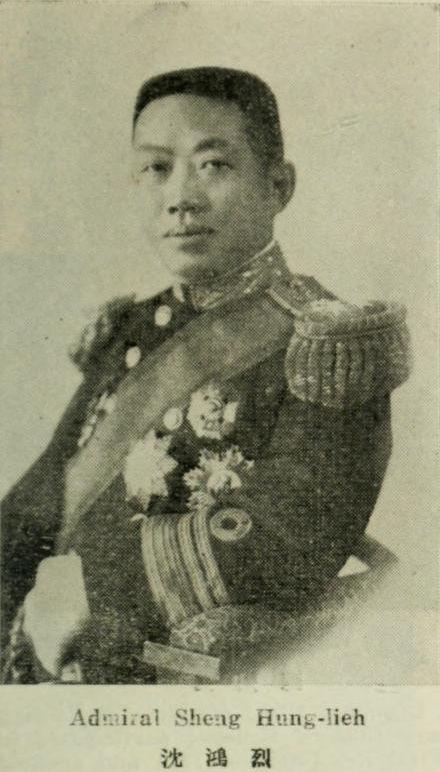 Shen Honglie (Shen Hung-lie) (1882 - 1969)